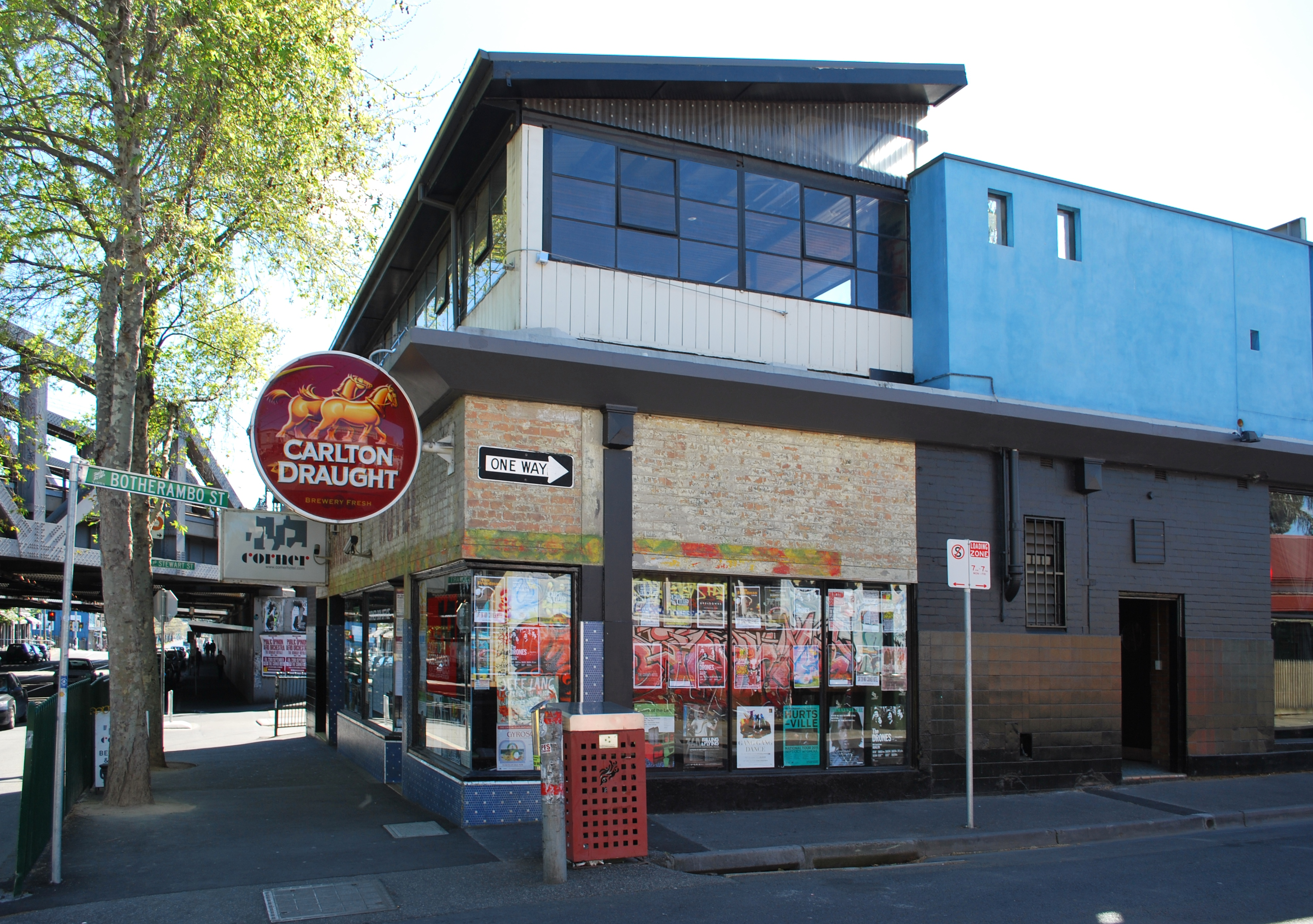 Corner Hotel at Richmond, Victoria